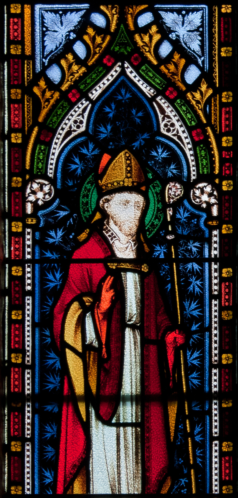 Detail of the left light of a stained glass window in the south aisle, depicting Laurentius O Toole.